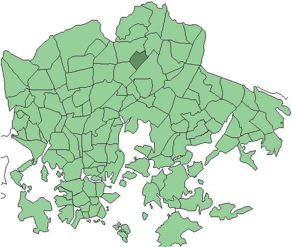 Districts of Helsinki, Ylä-Malmi highlighted